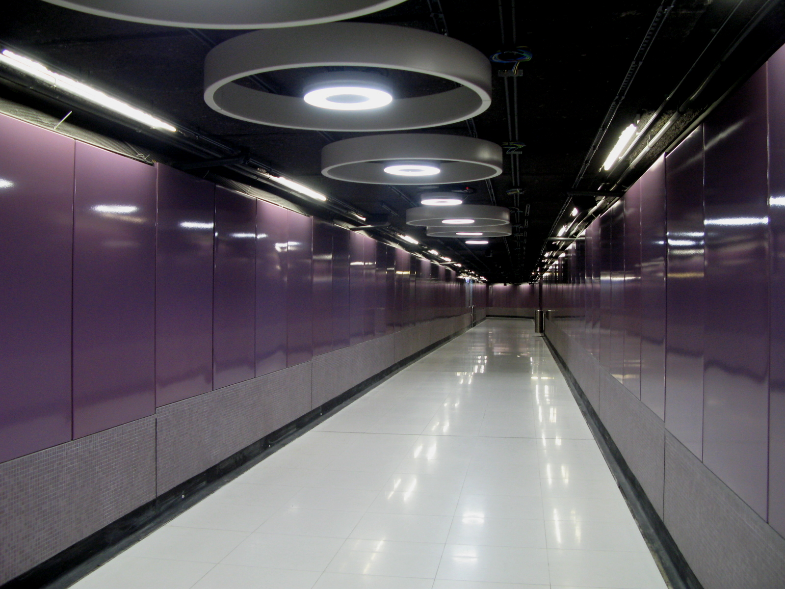 HK MTR Causeway Bay Station Access 銅鑼灣站連接月台與大堂的通道